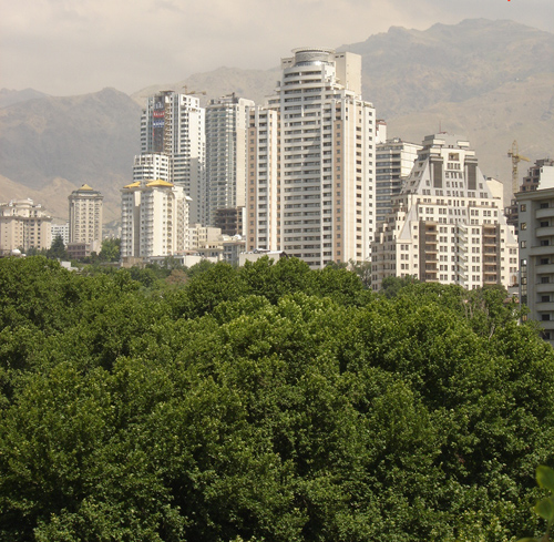 Elahiyeh District. Photo taken by Zereshk using a Sony 5 MegaPixel camera. Uploaded from Image:Elahiyeh.jpg, by User:Zereshk.